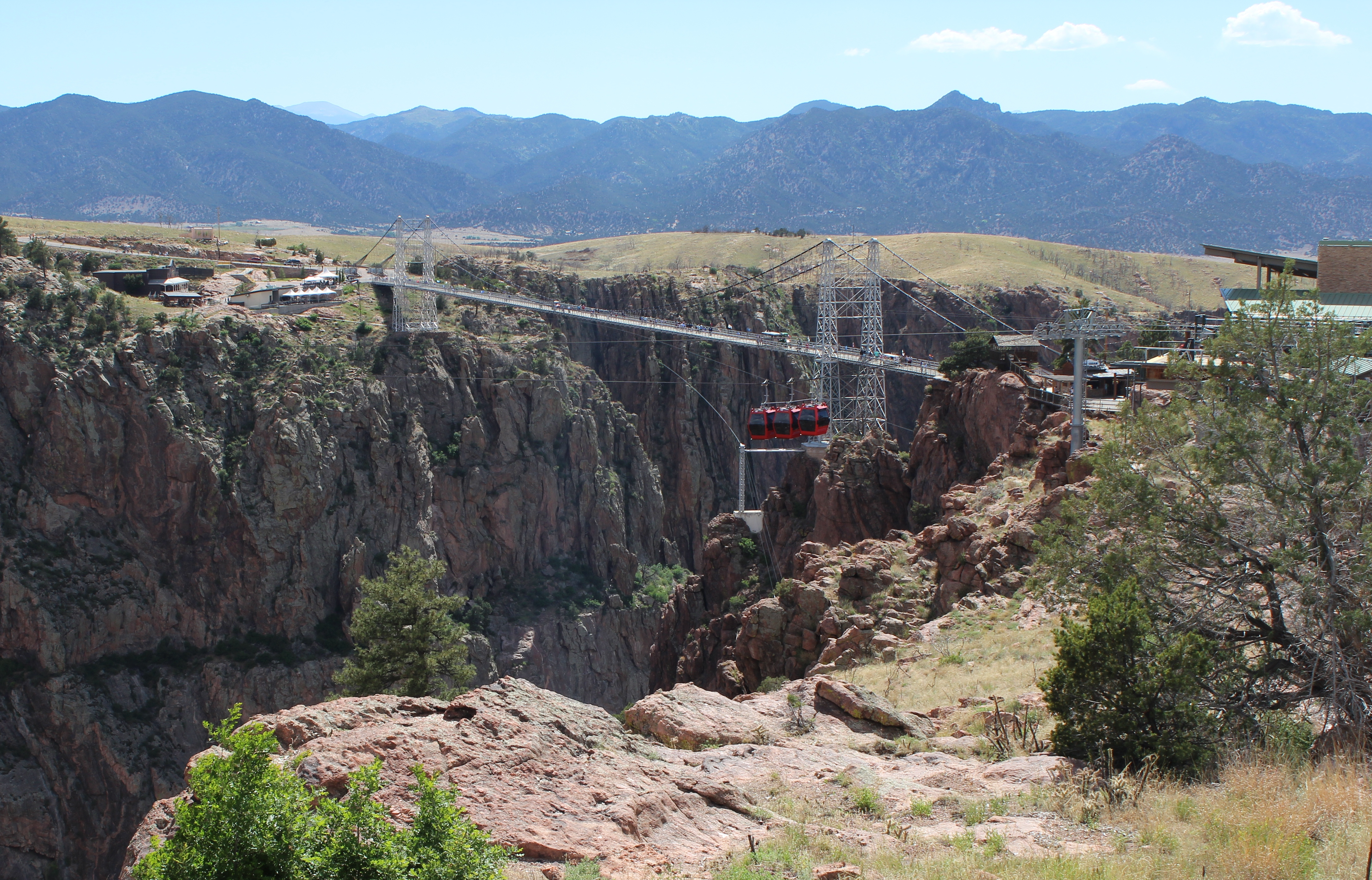 Royal Gorge Bridge showing aerial tram. A 2018 picture.